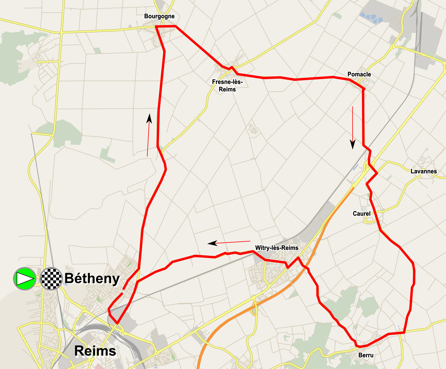 Circuit of the Chrono champenois